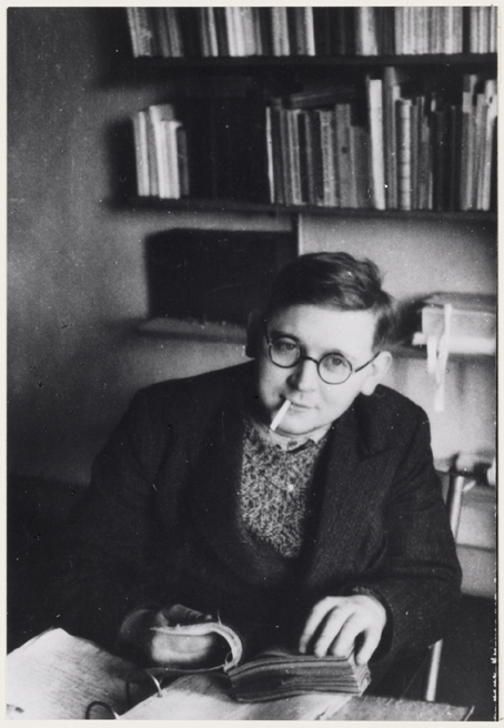 Dutch writer Albert Kuyle. (Collection Letterkundig Museum, The Hague)